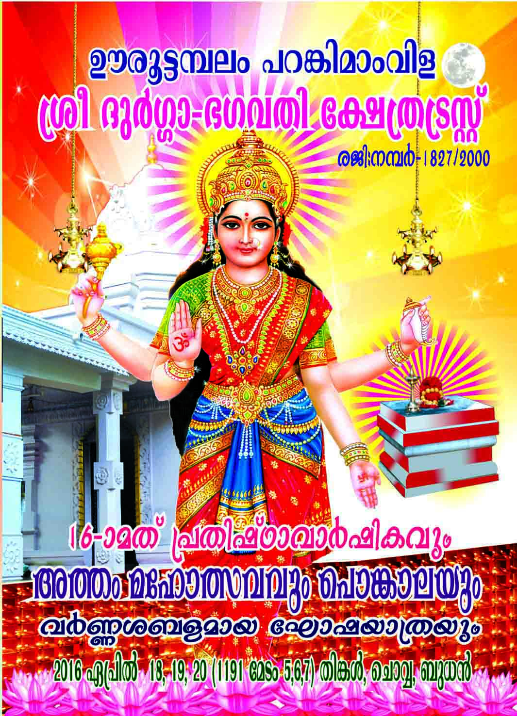 Ooruttambalam Parankimamvila durga temple